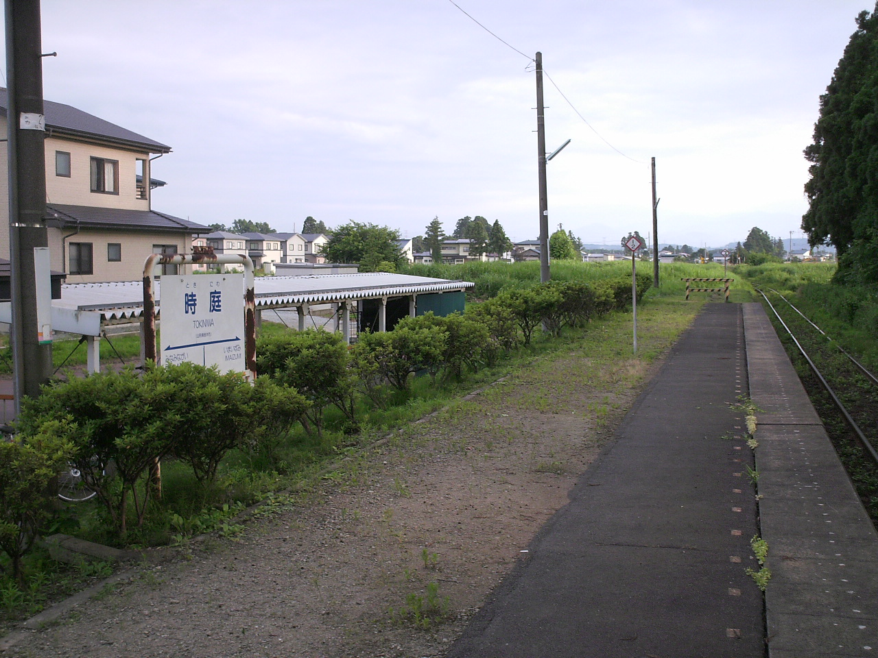 Platform of Tokiniwa Station. 時庭駅